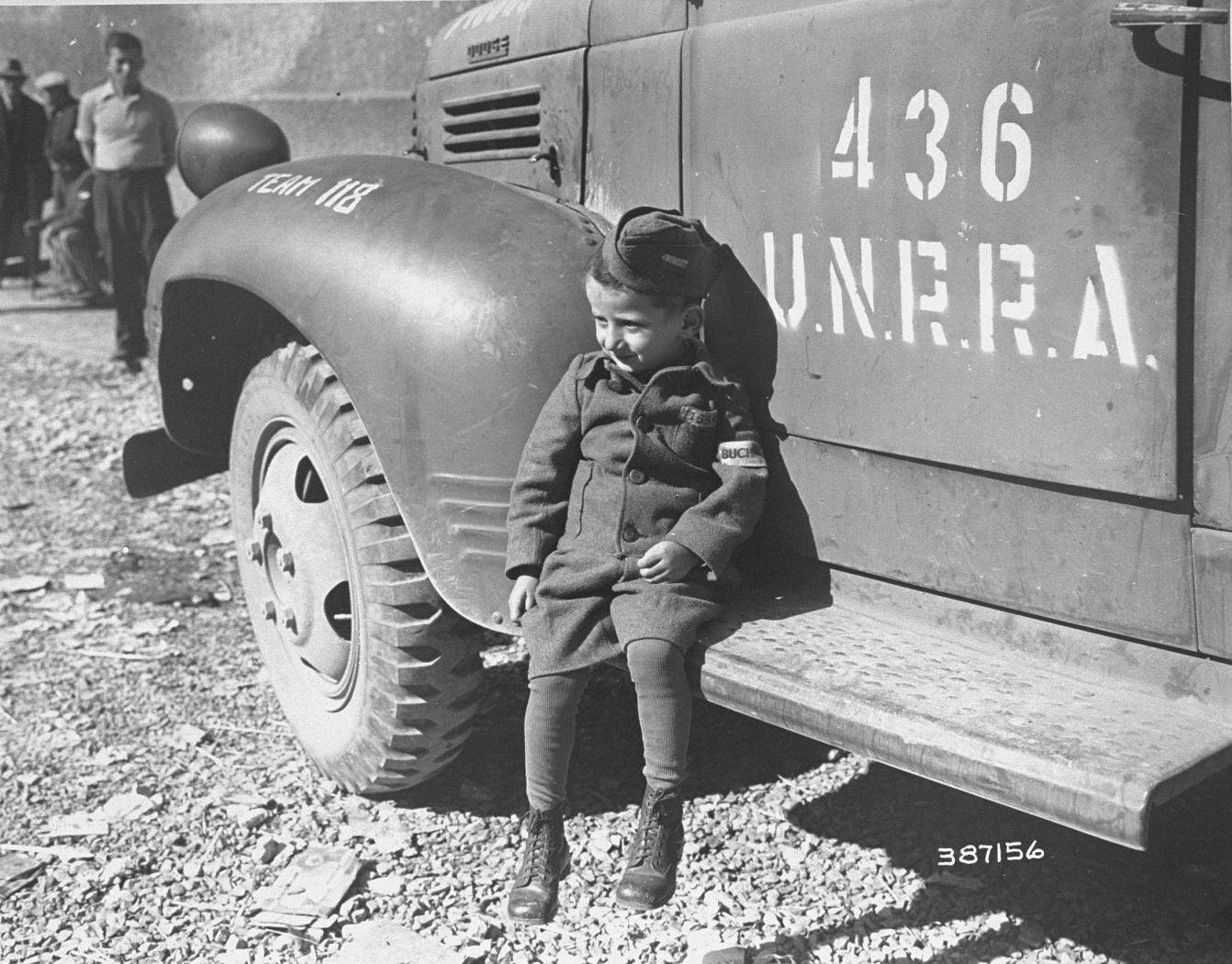 Joseph Schleifstein, a four-year-old survivor of Buchenwald, sits on the running board of an UNRRA truck soon after the liberation of the camp.